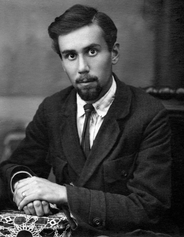 Mitropolskij, Boris Serejevitch (1905 - 1973) Česky: Mitropolskij, Boris Sergejevič (1905 - 1973)